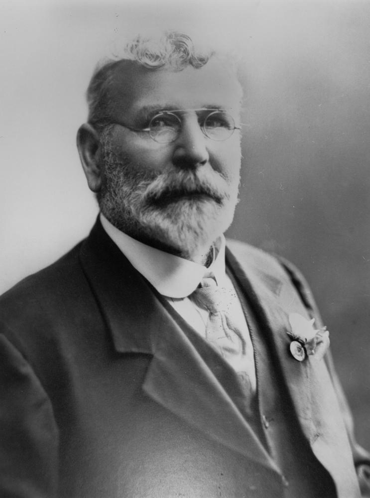 Captain Allan F. G. Bishop Bishop Island, at the mouth of the Brisbane River in Moreton Bay, was named after Captain Bishop. He died in Agust 1950, aged 92. (Description supplied with photogaph.).